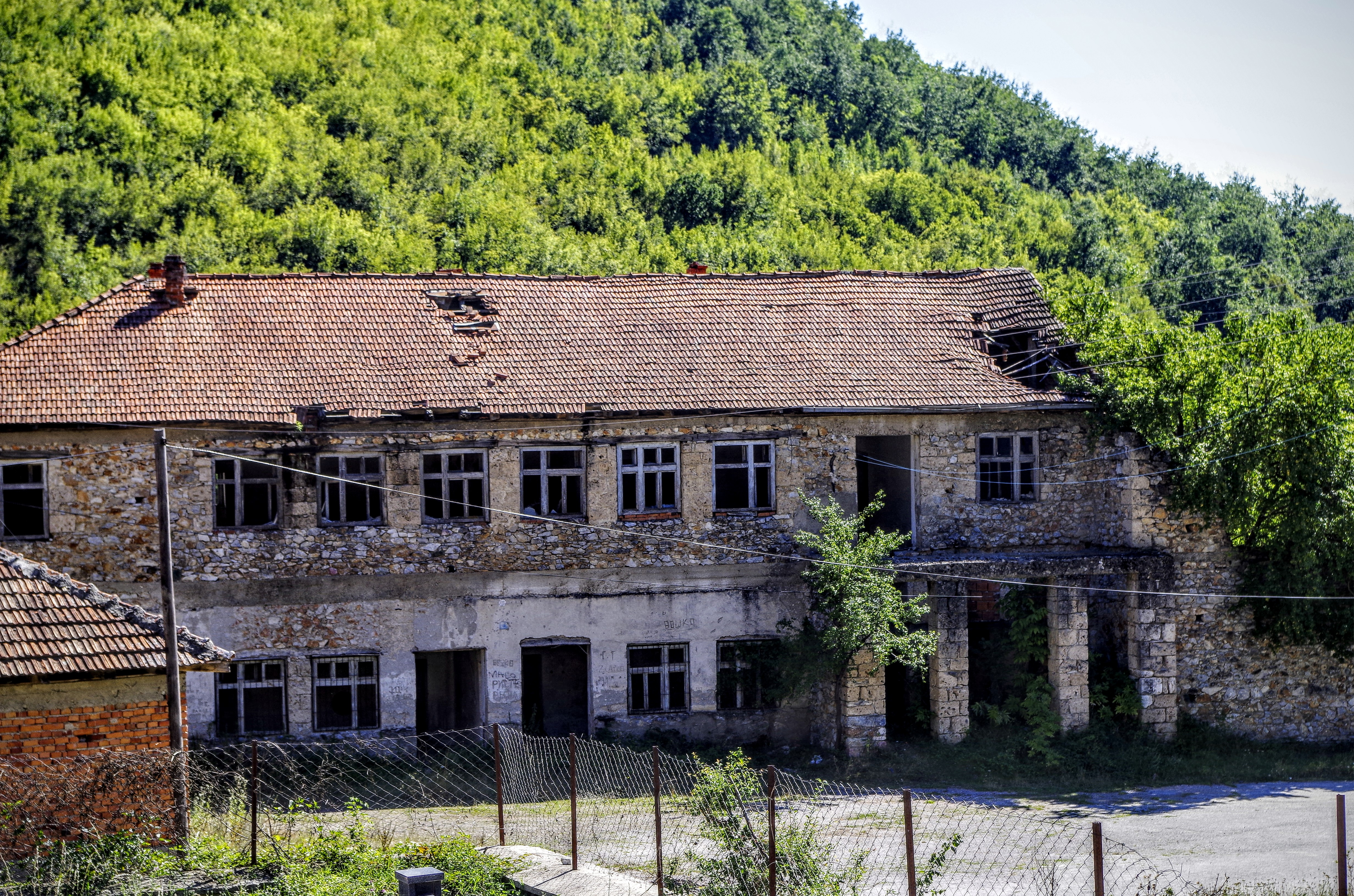 View of the old municipal building in the village Slatino